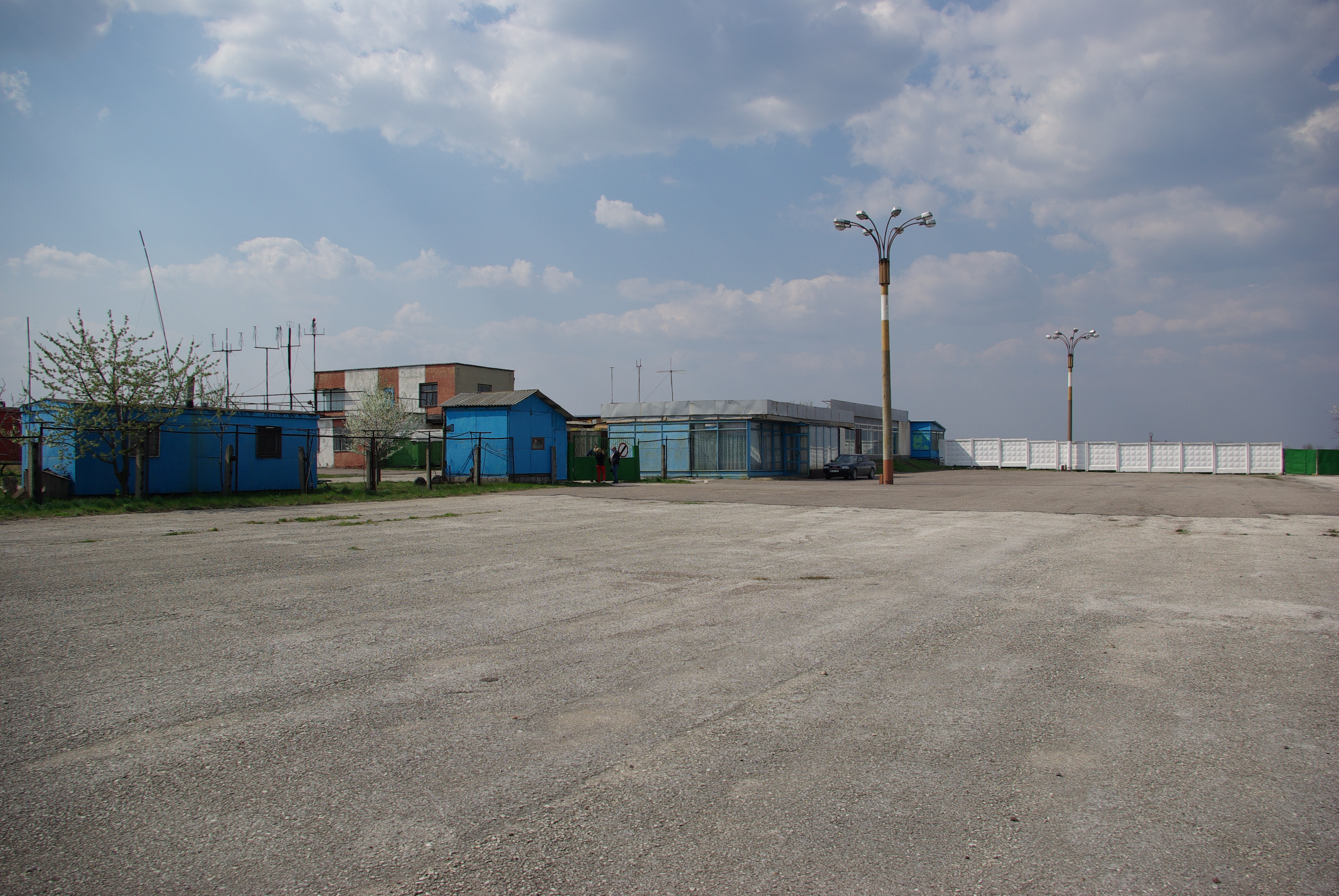 Bălţi International Airport, Moldova